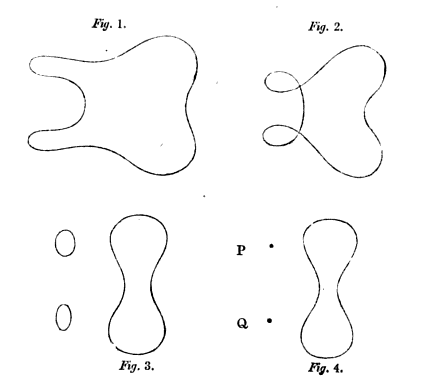 Plate of an algebraic curve depending on parameters acquiring isolated real points. From the Ninth Bridgewater Treatise by Charles Babbage.